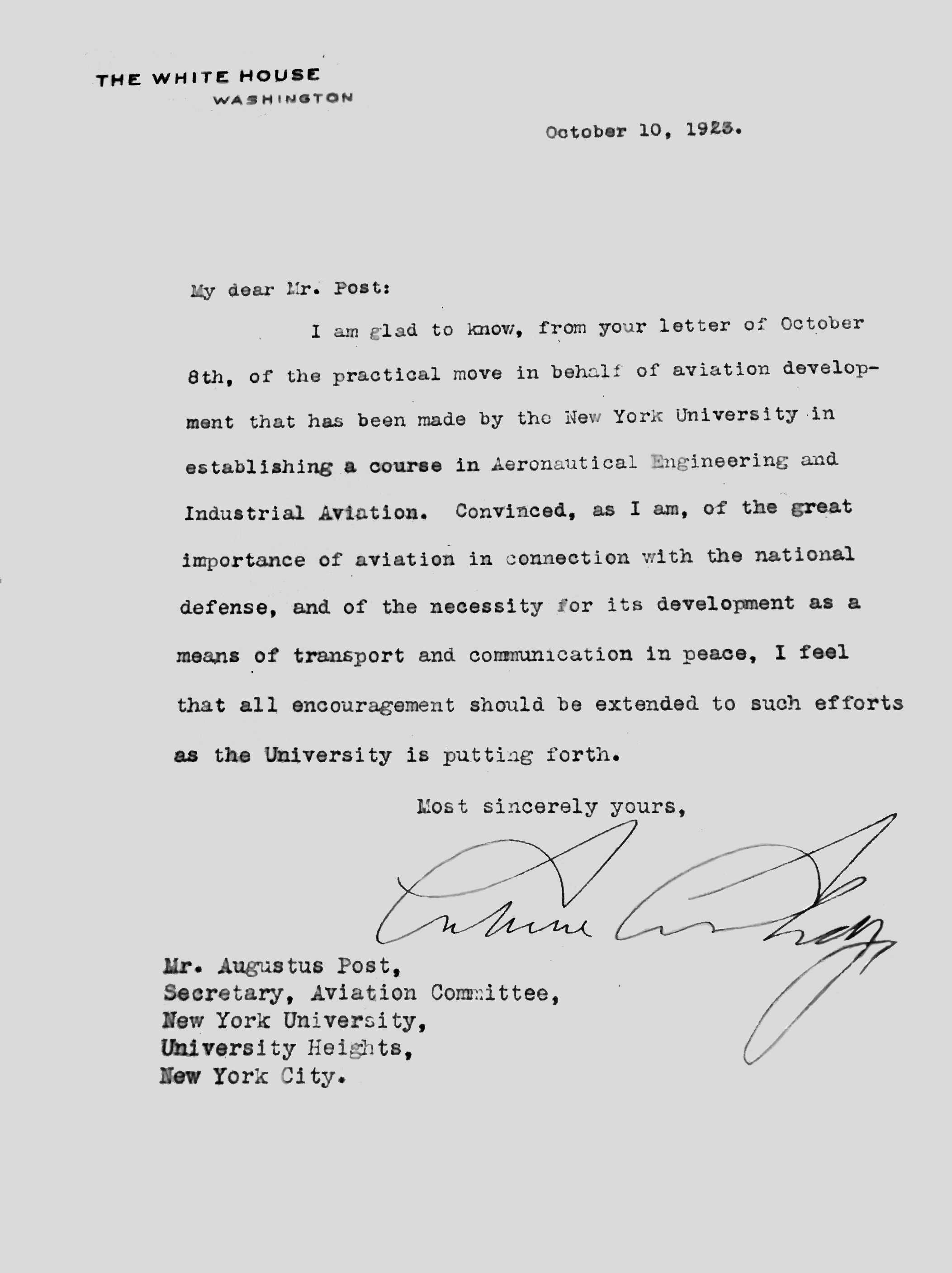 This letter from President Calvin Coolidge was written to Secretary of the Aero Club of America, Augustus Post, his college friend, supporting the establishment of an Aeronautical Engineering Program at New York University.